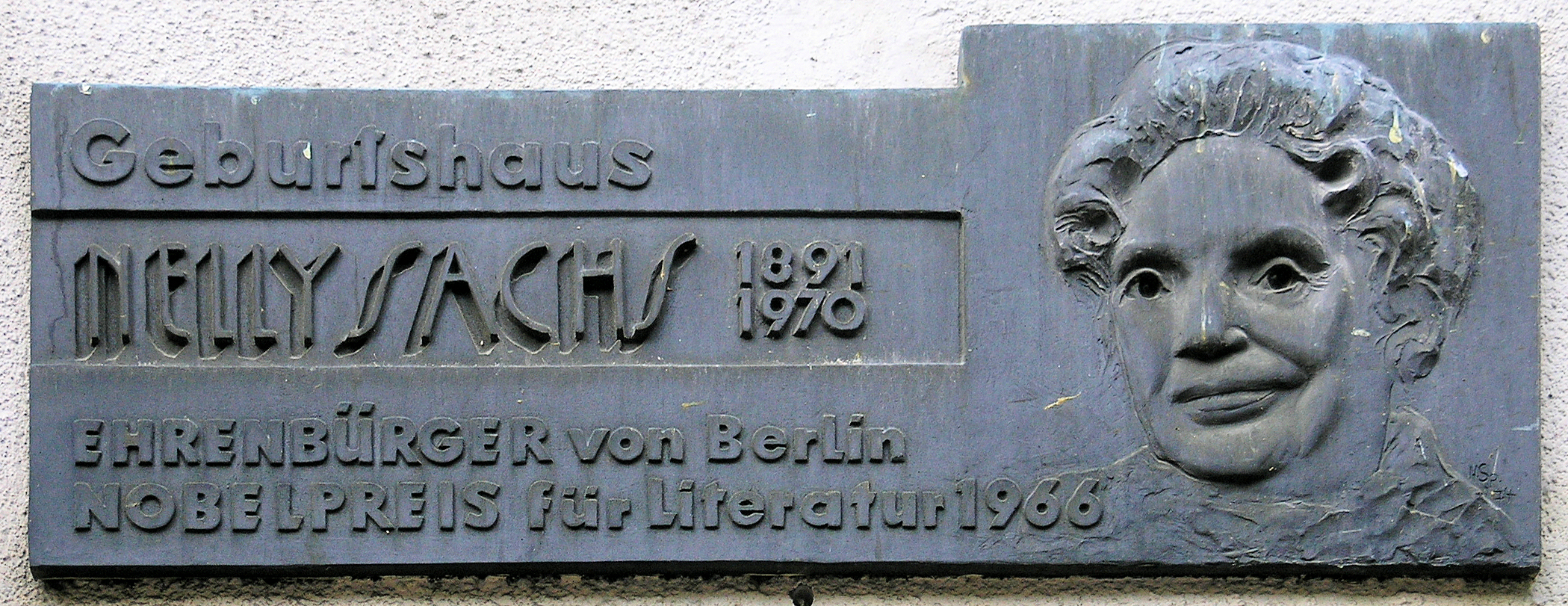 Memorial plaque, Nelly Sachs, Maaßenstraße 12, Berlin-Schöneberg, Germany